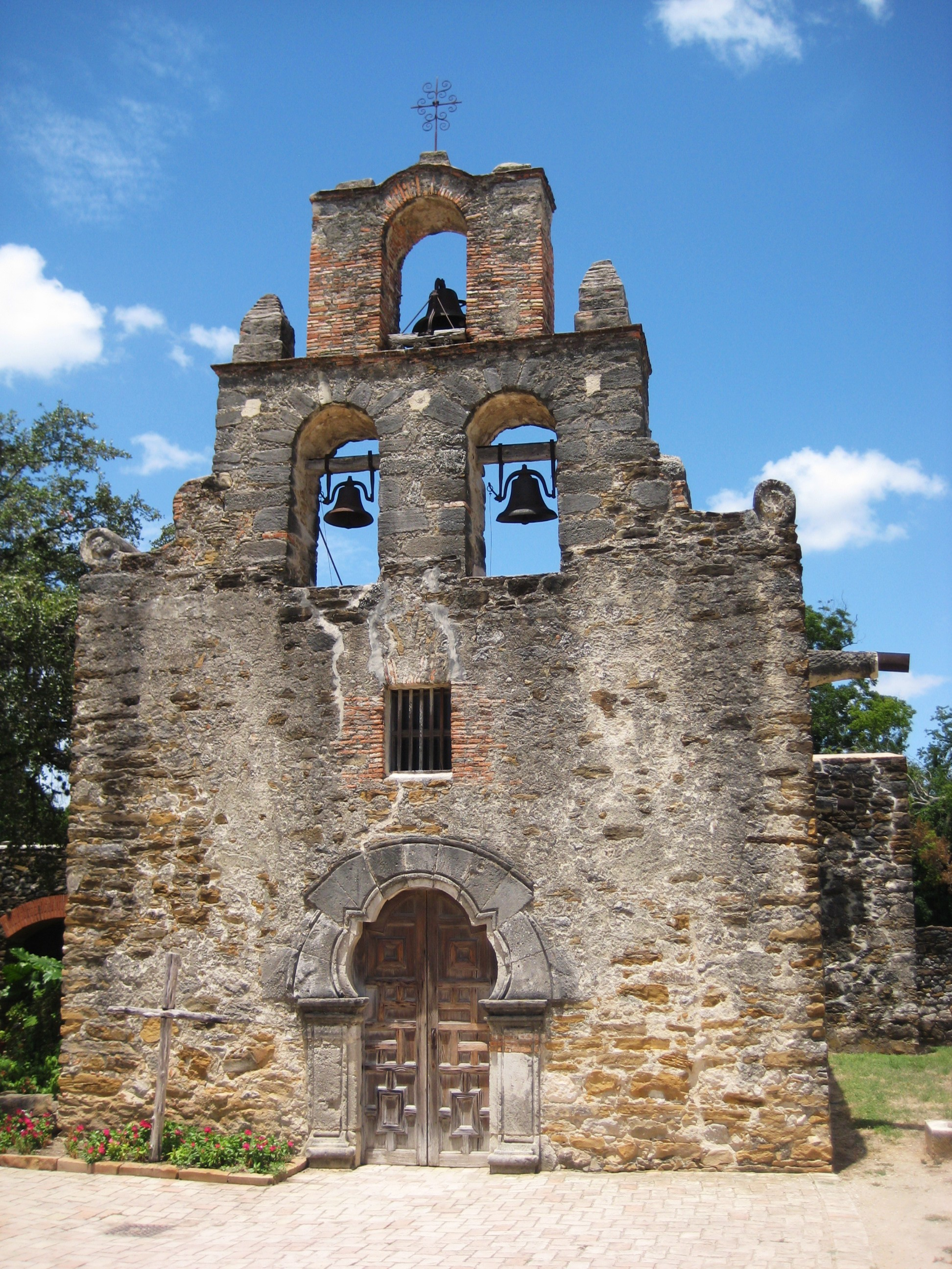 Mission Espada Chapel at San Antonio, TX.